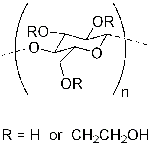 chemical structure of hydroxyethyl cellulose (hydroxyethylcellulose)